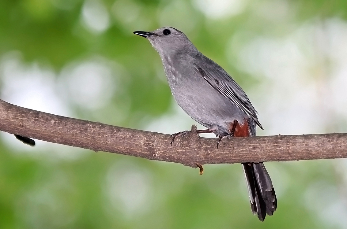 This is a Gray Catbird Dumetella carolinensis seen in Washington, DC, USA. Very appropriate that this bird is a catbird - he was sitting in a tree next to the cheetah exhibit at the National Zoo.